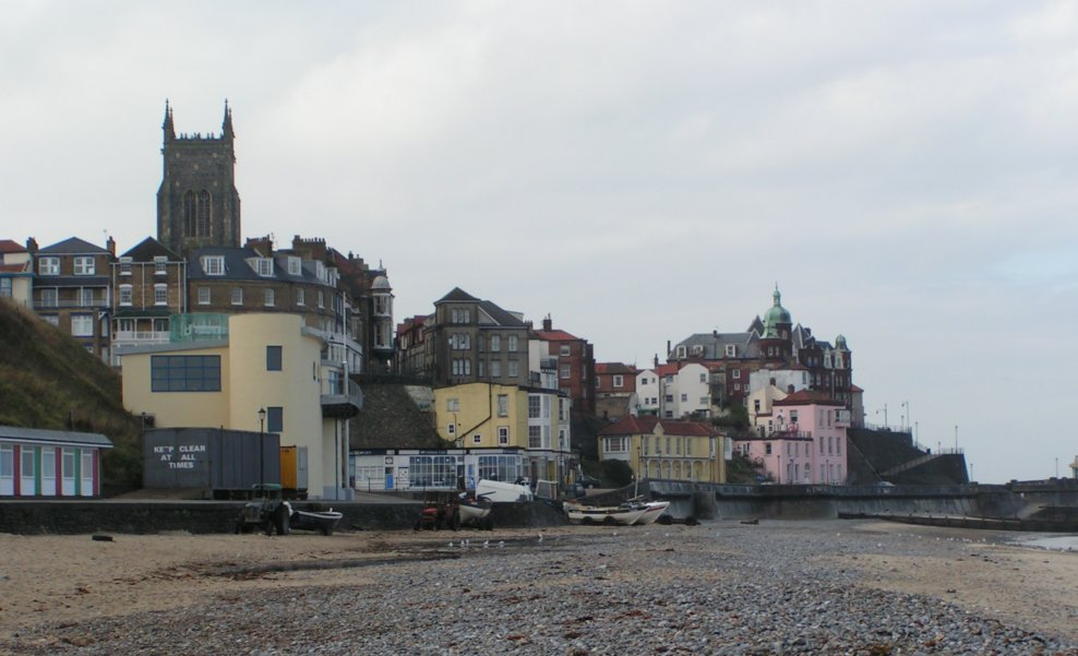 Cromer in Norfolk in England. The view of the town from the beach. Note the fishing boats on the shore.